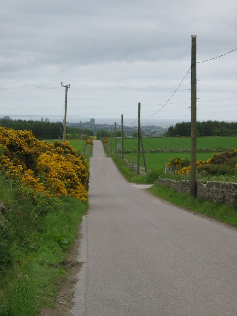 Causey Mounth Road. Taken from Banchory Devenick school looking North East with Aberdeen in the background. This is an old routeway into Aberdeen.